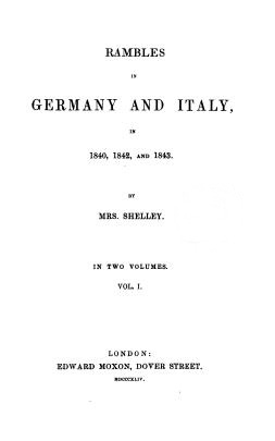 Title page from Rambles in Germany and Italy